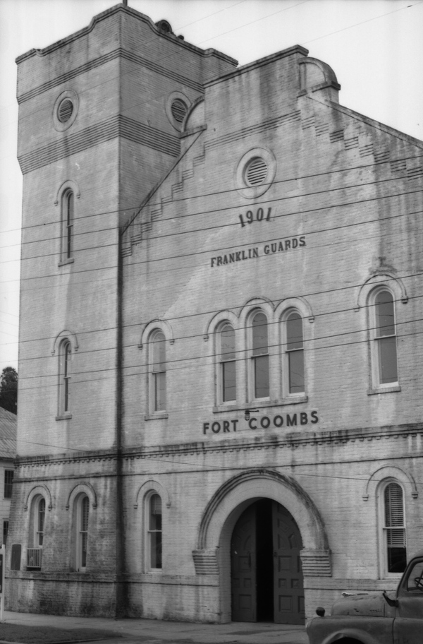 A nearby historical marker (erected 2004) reads, "The Franklin Guards, a company of Infantry organized in Apalachicola in 1884 by J.H. Coombs and Fred Betterfield, erected the first building in the city to be used solely as an armory in 1898. Made of simulated brick, it was located at the corner of High Street and Center Avenue. On May 25, 1900, fire destroyed it and much of the downtown. On July 3, 1900, a committee was formed to build a new armory. The facility was designed by Frank and Thomas Lockwood of Columbus, Georgia and constructed by John H. Hecker. It was completed in 1901 at a cost of $12,000. The replacement armory features real brick walls and a gable roof with a gable parapet. Solid massing of the walls, slit windows, and a corner tower that resembles a medieval watchtower make this an imposing military structure. Fort Coombs is a unique example of fortress architecture in Florida, and has served as the military and social nexus of Apalachicola for more than a century. Units stationed here have been mobilized for service in World Wars I and II, the Gulf War and the War with Iraq. Bronze plaques located on the exterior front wall memorialize the names of generations of Apalachicola and Franklin County citizens who have served their State and Nation."